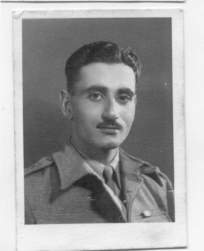 Shaukat Hayat Khan as a Captain, WW2, c. 1942